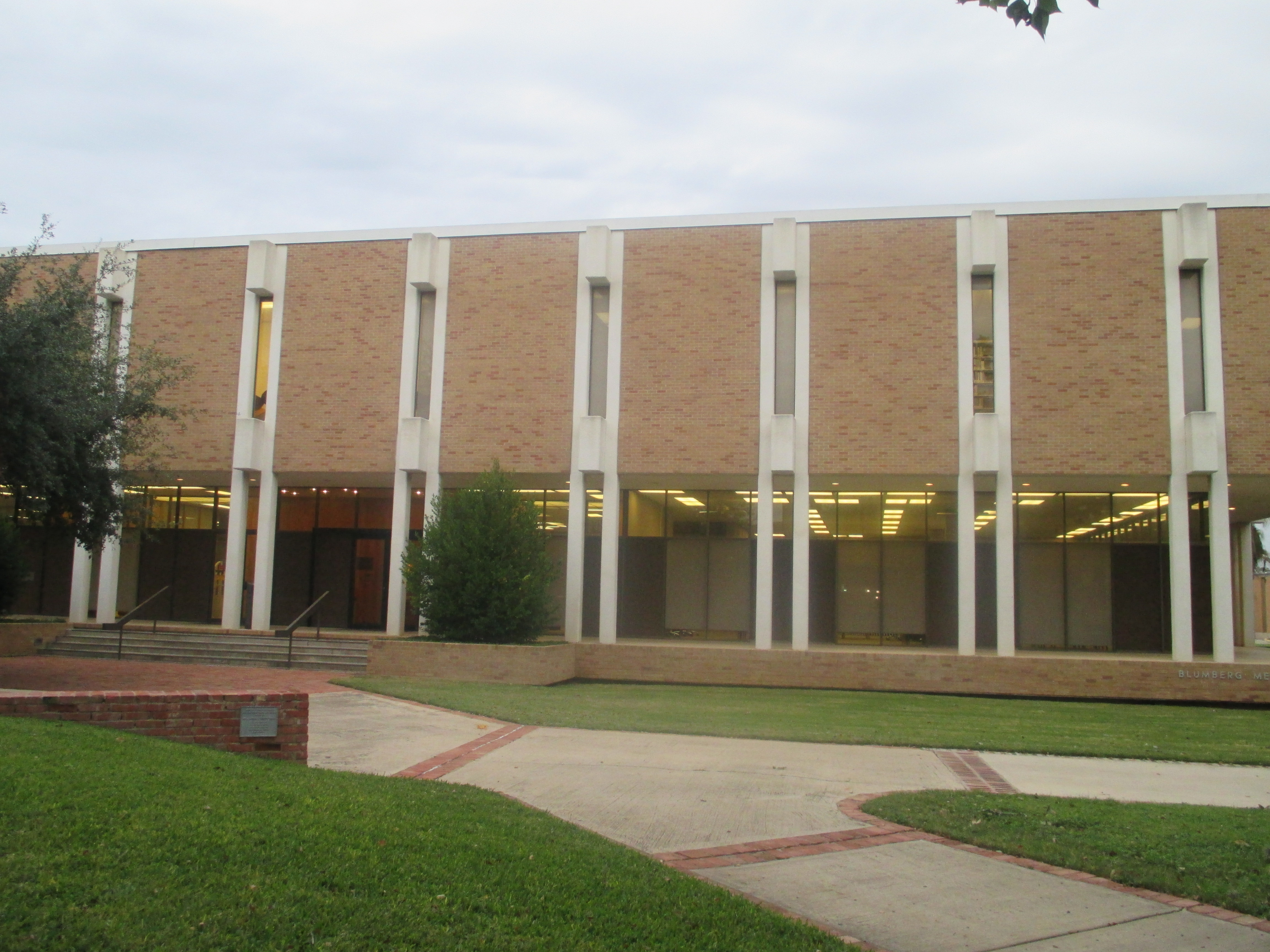 I took photo of Blumberg Memorial Library at Texas Lutheran University in Seguin, TX, with Canon camera.